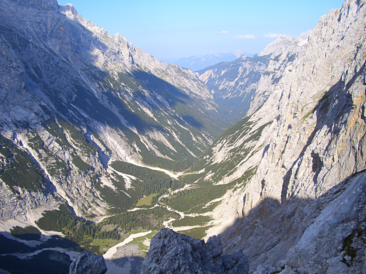 Reintal with Reintalangerhütte and Schachen from south (from Gatterl)